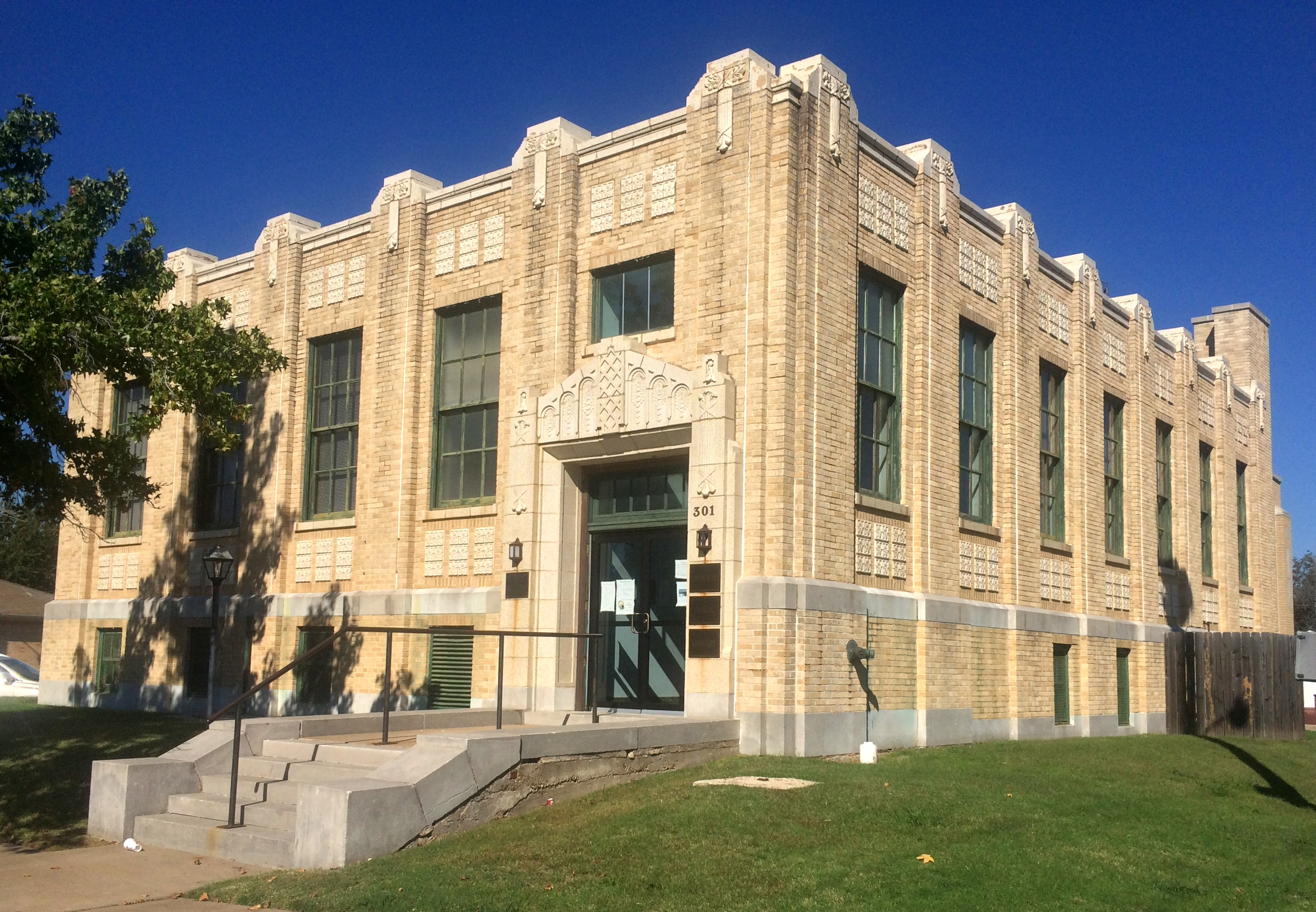 Southwestern Bell Telephone Building, 301 W. 7th St. Stroud